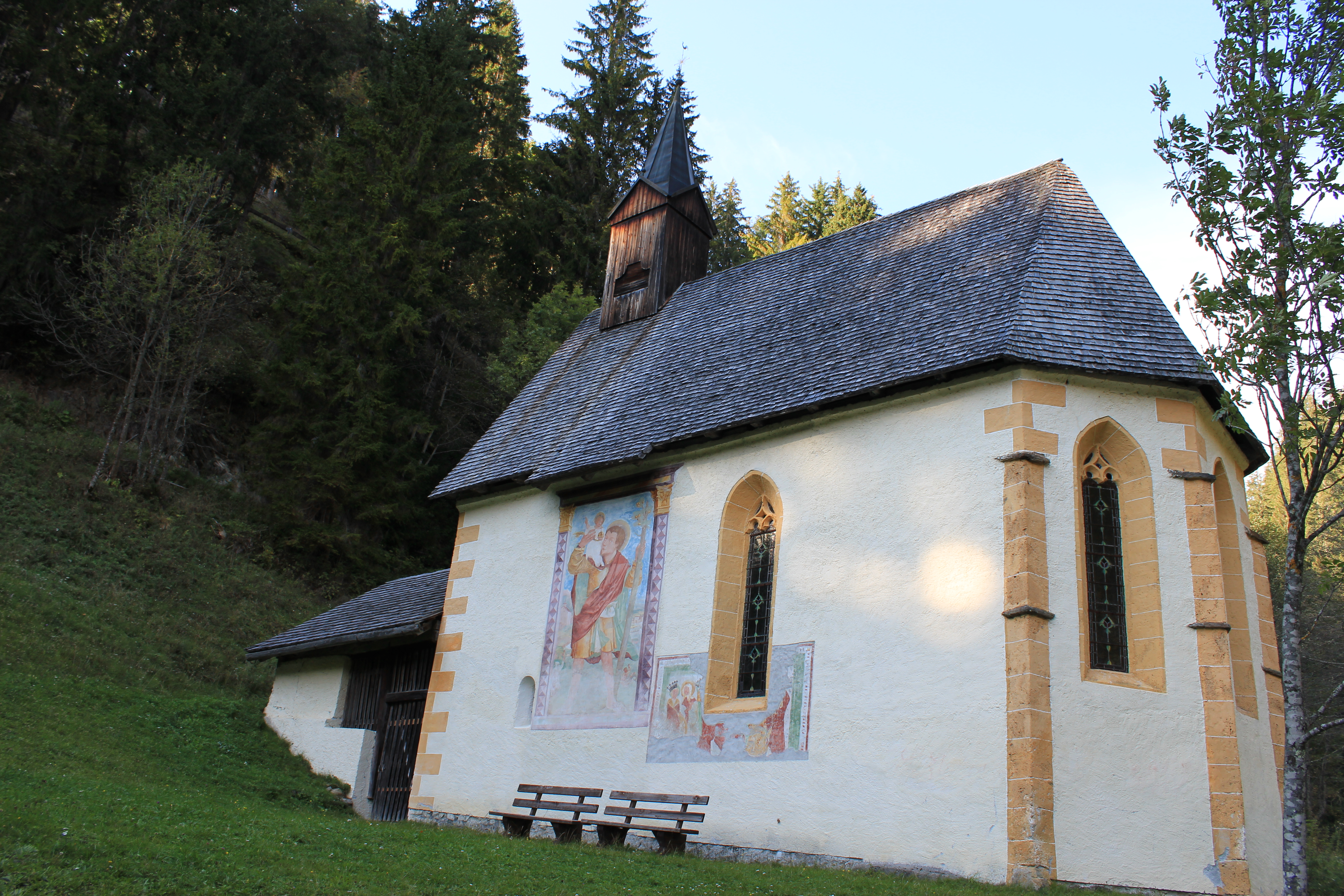 Church Saint Radegund in Wiesen in the community Lesachtal